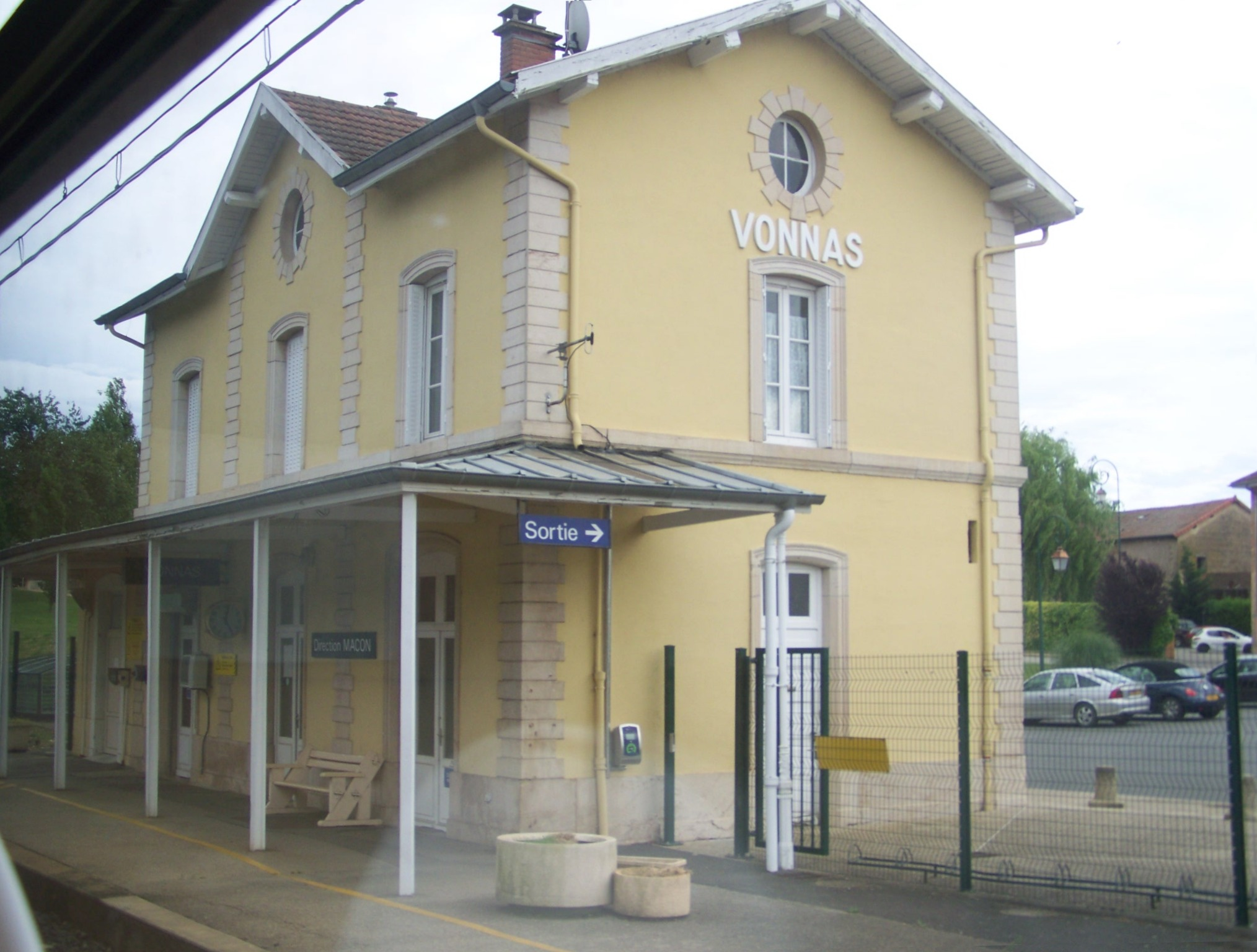 Railway station, Vonnas, a little commune in the department of Ain, France.